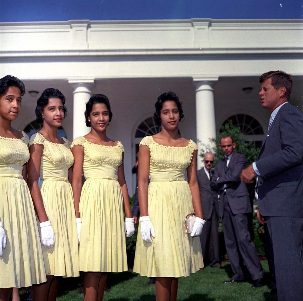 Fultz Quads meeting President JFK on Rose Garden in front of the White House. President John F. Kennedy visits with Mary Alice Fultz, Mary Louise Fultz, Mary Anne Fultz, and Mary Catherine Fultz, a set of quadruplets from Milton, North Carolina, 2 August 1962.